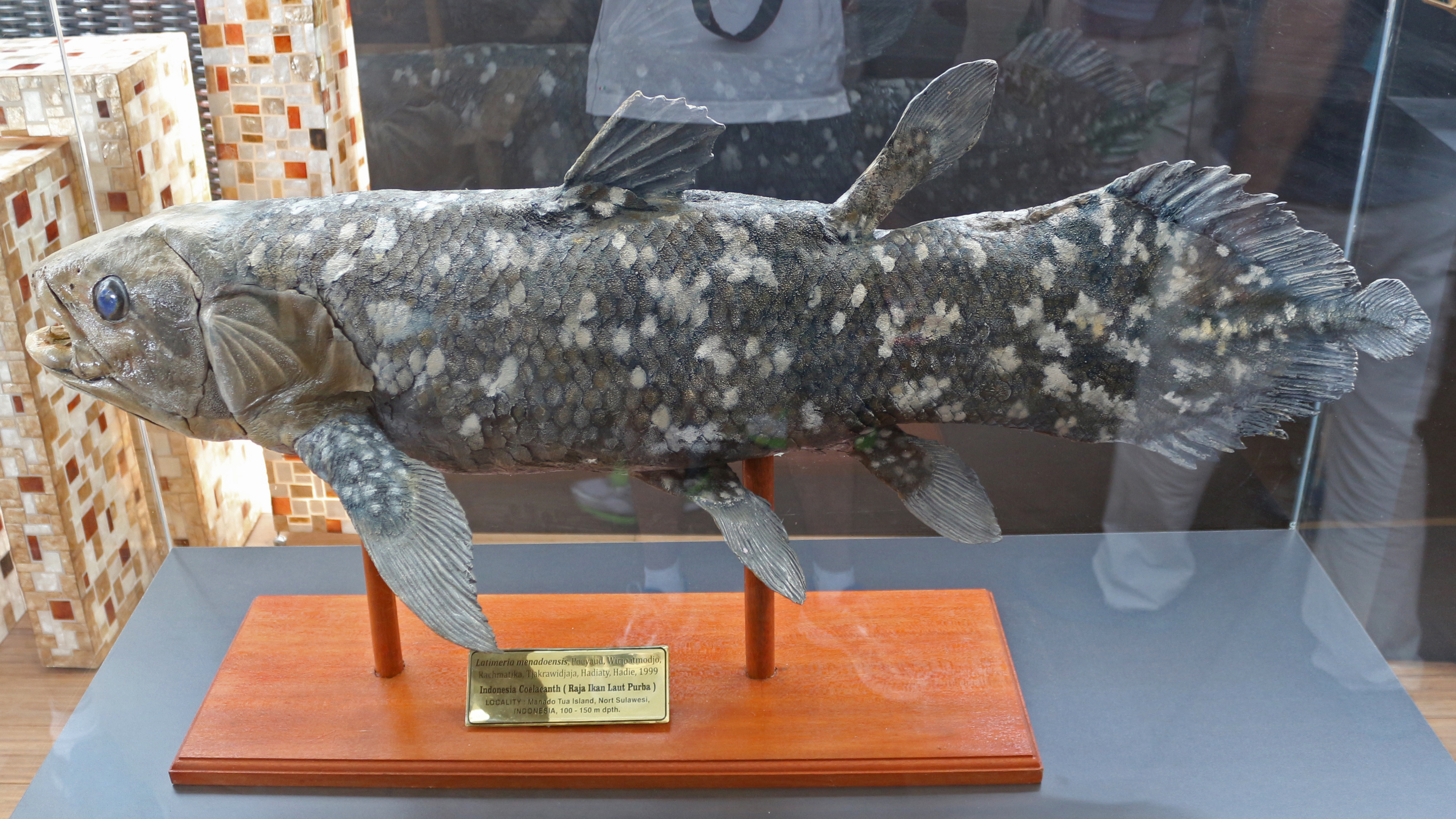 Stuffed Indonesian coelacanth in the pavilions of Indonesia during Expo 2015 in Milan, Italy